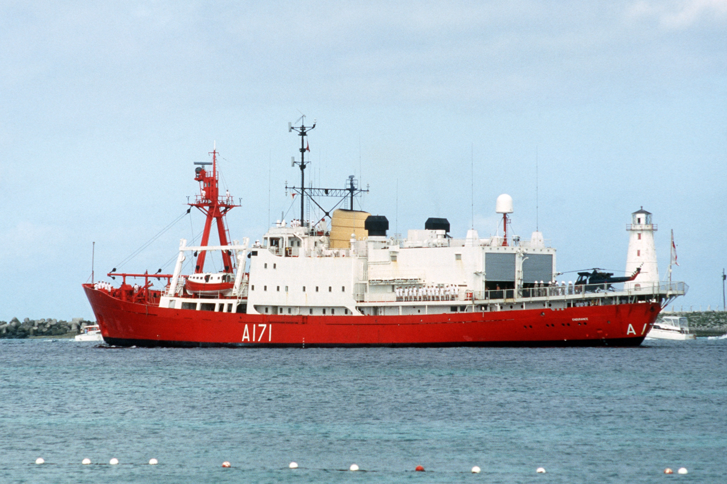 The British hydrographic and oceanographic survey patrol ship HMS Endurance (A171) at Nassau, Bahamas.